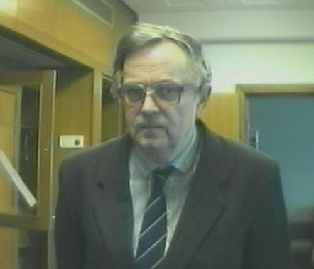 Nikolai Sergeevich Bakhvalov, 1995